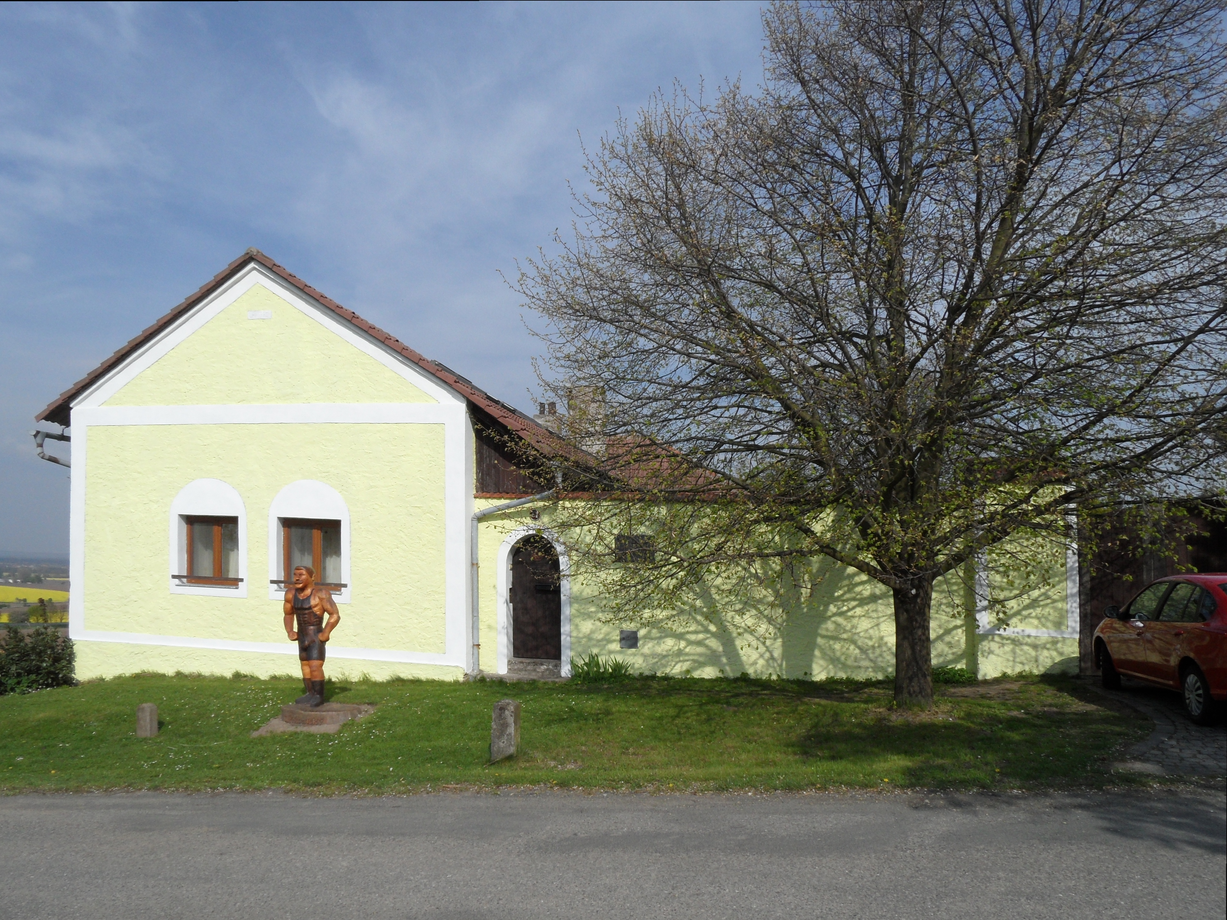 Kamhajek A. Birthplace of Gustav Frištenský (No. 14), Kolín District, the Czech Republic.